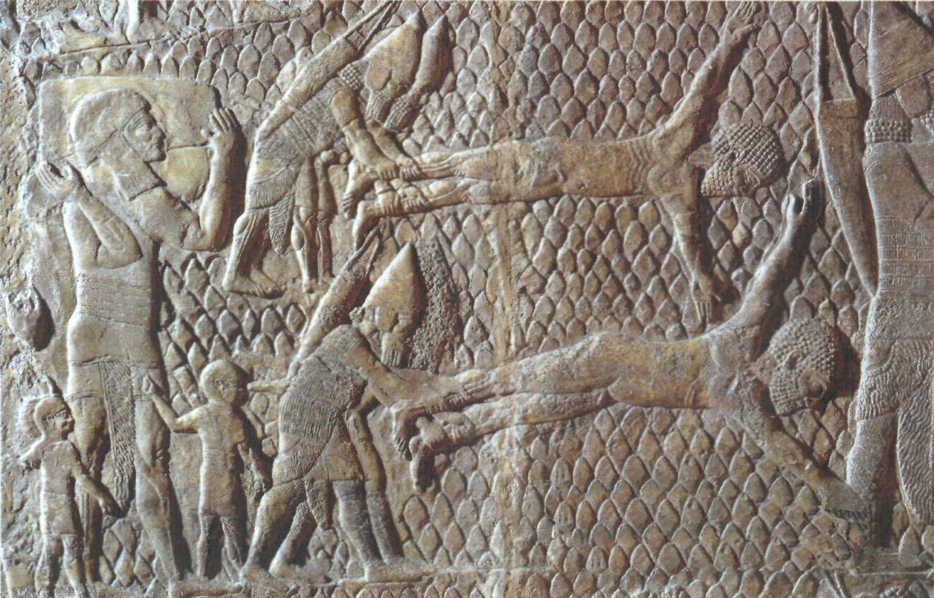 Assyrian kings have rebels flayed as a warning to troublesome subjects.